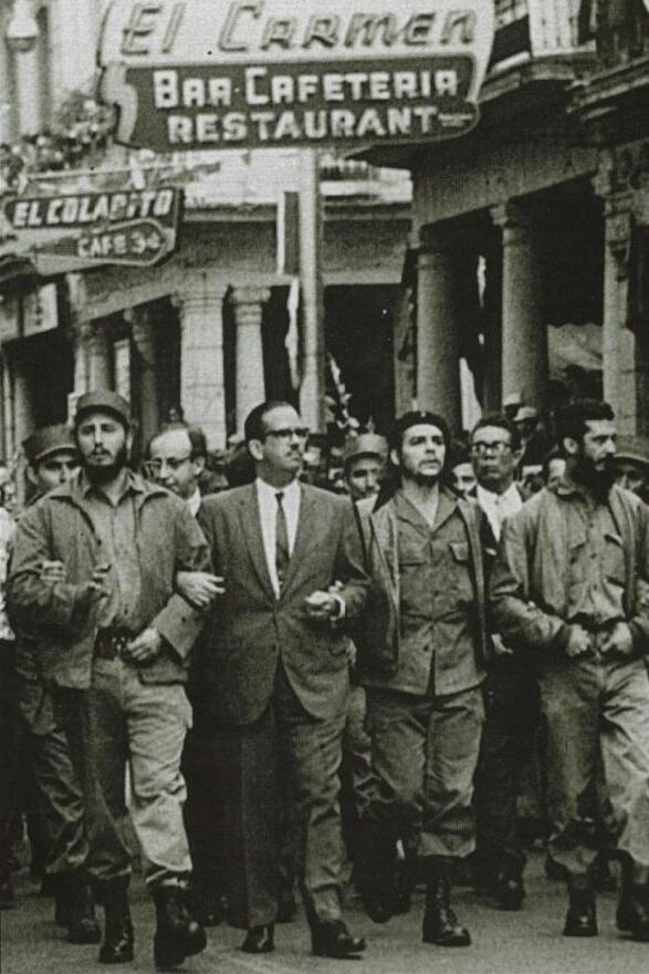 Che Guevara in Cuba.